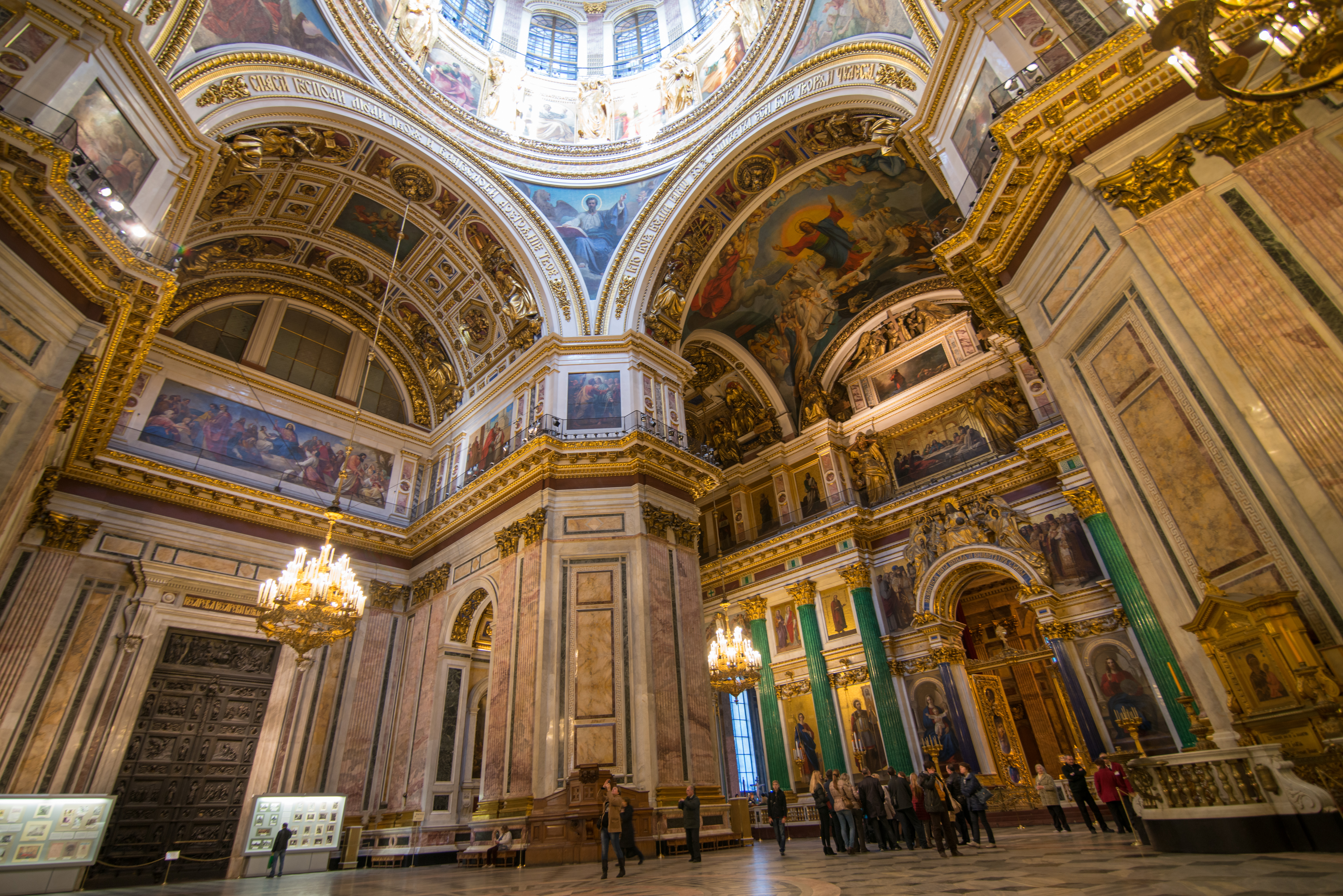 Saint Isaac's Cathedral or Isaakievskiy Sobor (Исаа́киевский Собо́р) in Saint Petersburg, Russia is the largest Russian Orthodox cathedral (sobor) in the city. It is the largest orthodox basilica and the fourth largest cathedral in the world. It is dedicated to Saint Isaac of Dalmatia, a patron saint of Peter the Great.